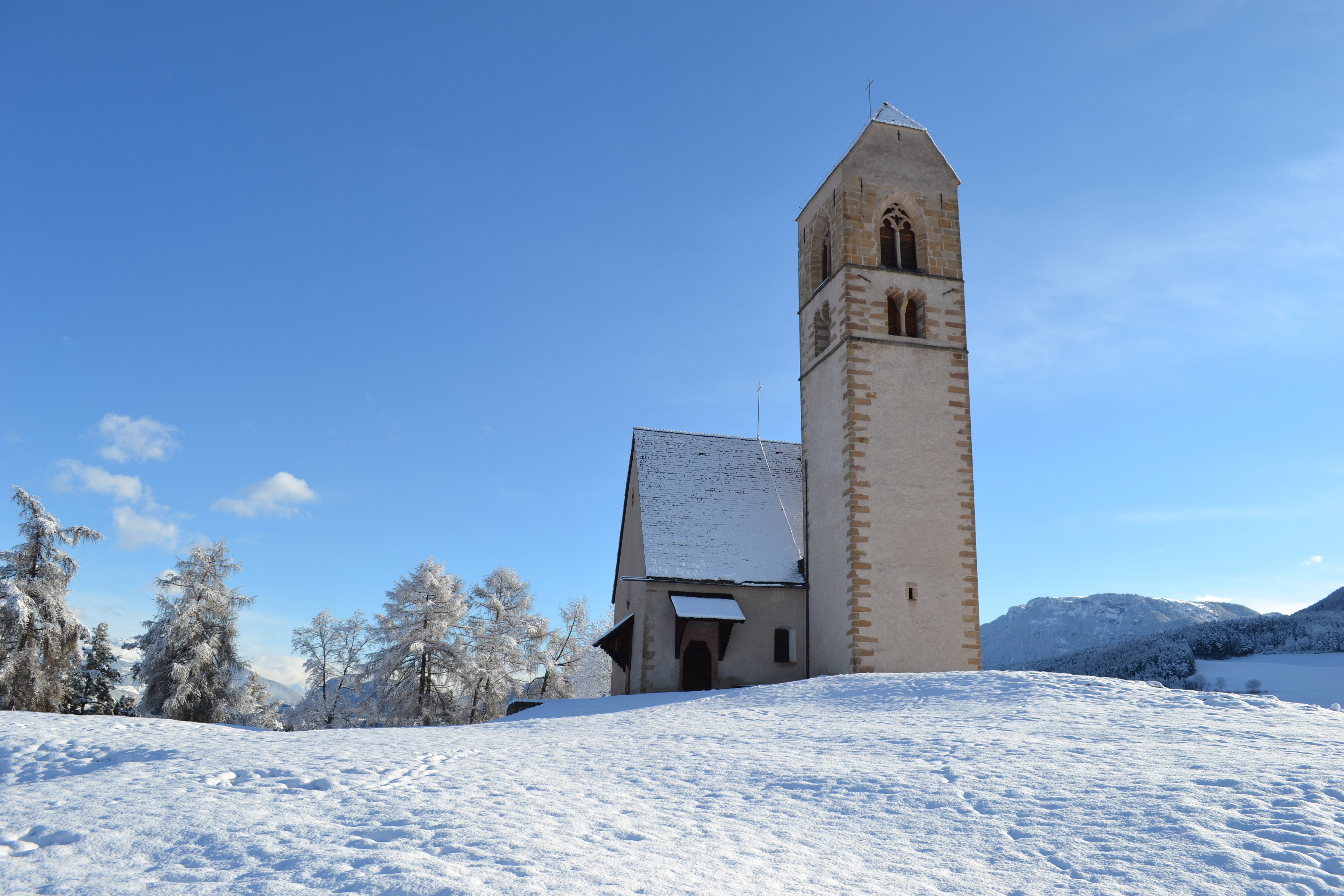 St. Peter am Bühl, A Romanesque church (dating back to the 12th or 13th Century) located on a hill inhabited in prehistoric times. The nave was given a Gothic vault and the tower was heightened in ca 1498. The winged altar is safeguarded in the parish museum. Side portal made of sandstone (1507)